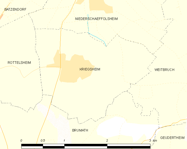 Map of French municipality